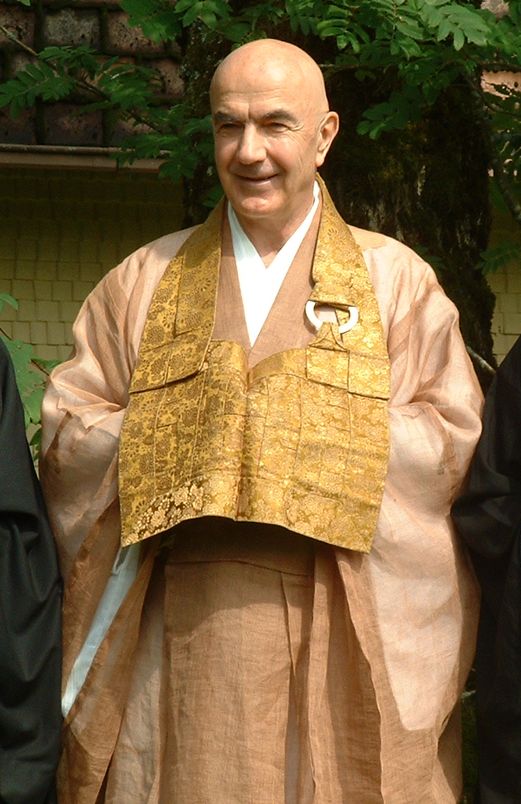 This is a photograph of Zentatsu Richard Baker-roshi taken at Johanneshof, his center in the Black Forest in Germany, in 2008